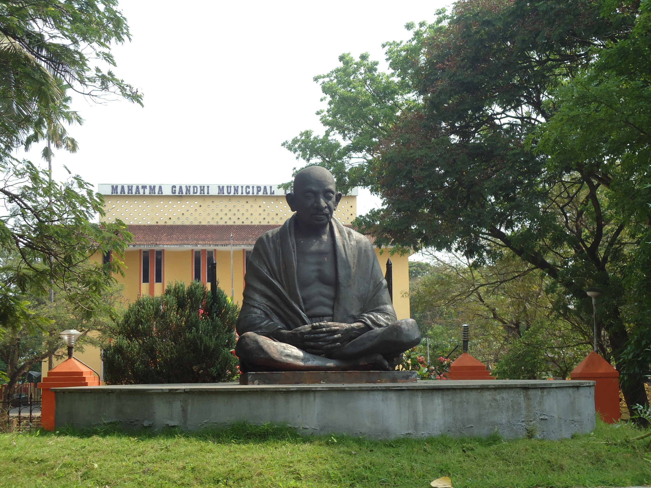 Statue of Mahathma Gandhi Aluva